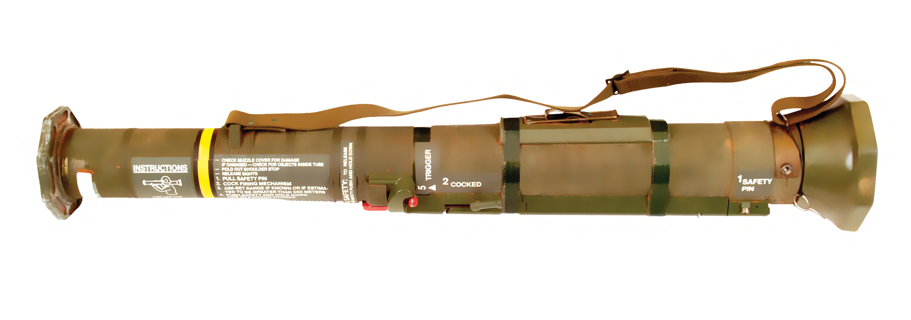 M136 AT4 Light Anti-tank Weapon Primary function: Anti-armor, gun emplacements, pillboxes, buildings and light vehicles. Length: 40 in. Weight: 14.8 lbs. Projectile: 84 mm rocket with shaped charge warhead. Maximum effective range: 300 meters.